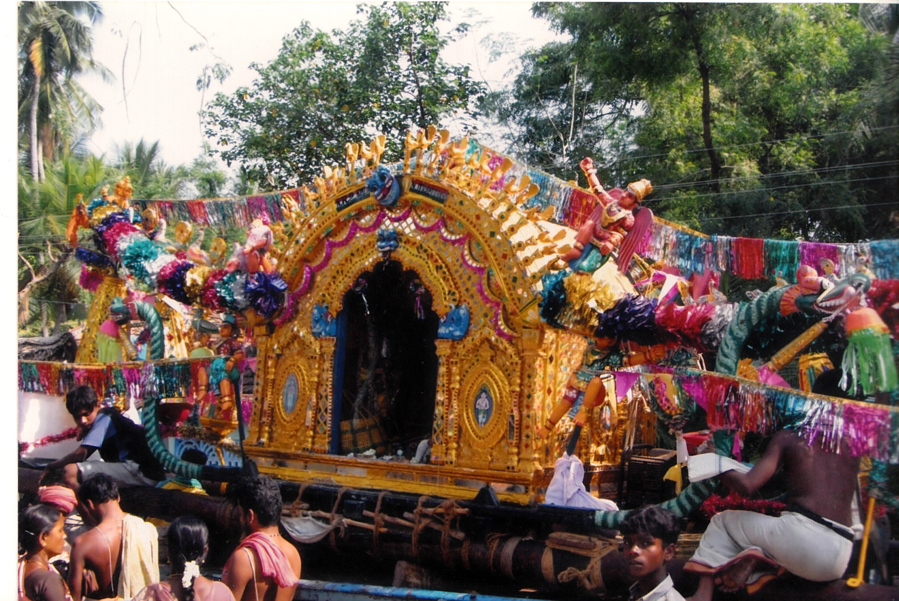 திருச்சோற்றுத்துறை பல்லக்கு, திருவையாறு சப்தஸ்தான விழா, ஏப்ரல் 2008